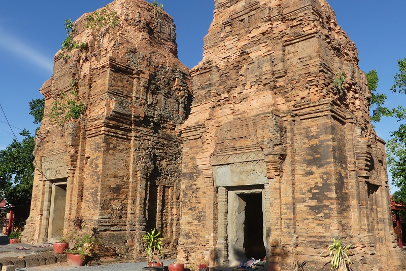 This is a picture of the famous Neang Khmao temple near Khun Srun's birthplace